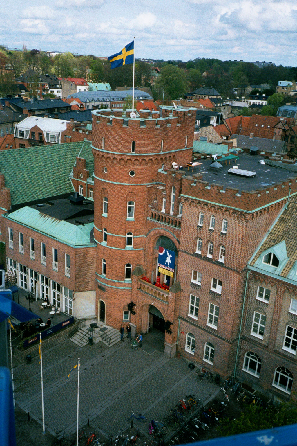 The central part of the building of "Akademiska Föreningen" (The Academic Society), a student organization in Lund founded in 1830. Photographer: Fredrik Tersmeden (= User:FredrikT), May 2002.